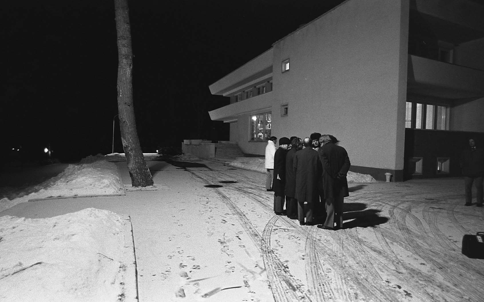 Photograph of President Gerald Ford and his aides discussing negotiating strategy outdoors, in ‑20 degree weather, for fear of being electronically monitored by their Russian hosts.